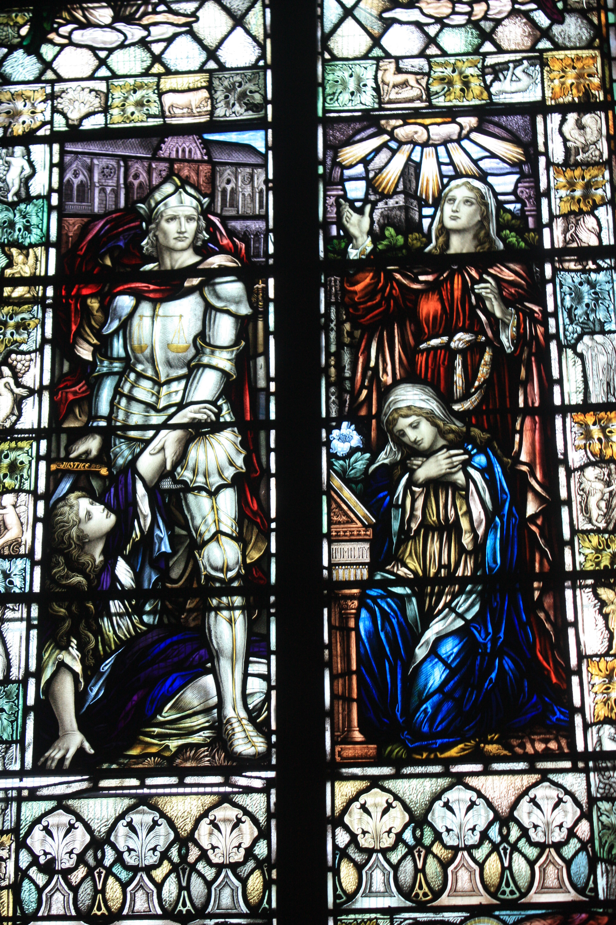 Stained glass by Bannantyne & Son, St Serfs, Dunning